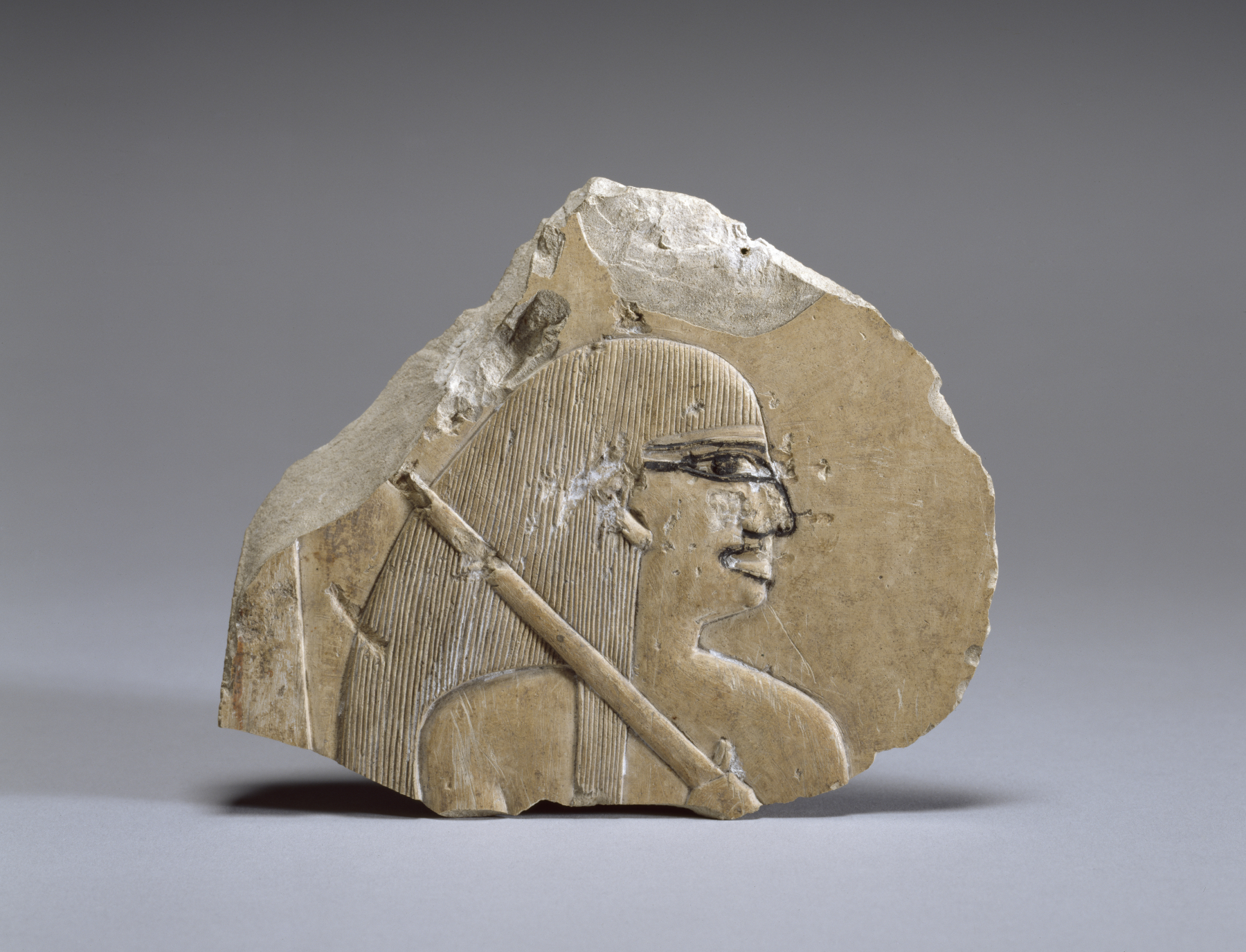 Nefru was the only woman to bear the title "Great Royal Wife" to King Nebhepetre Mentuhotep II. This delicate relief fragment comes from the chapel of her tomb. It shows the head, shoulders, and hand of a woman attending Queen Nefru. The staff that crosses her body supported a sunshade, part of which appears in back of her head. The sunshade bearer was part of a line of at least ten women and one man. The large ear and elongated eye are characteristic of the work of the sculptors who decorated the tomb.